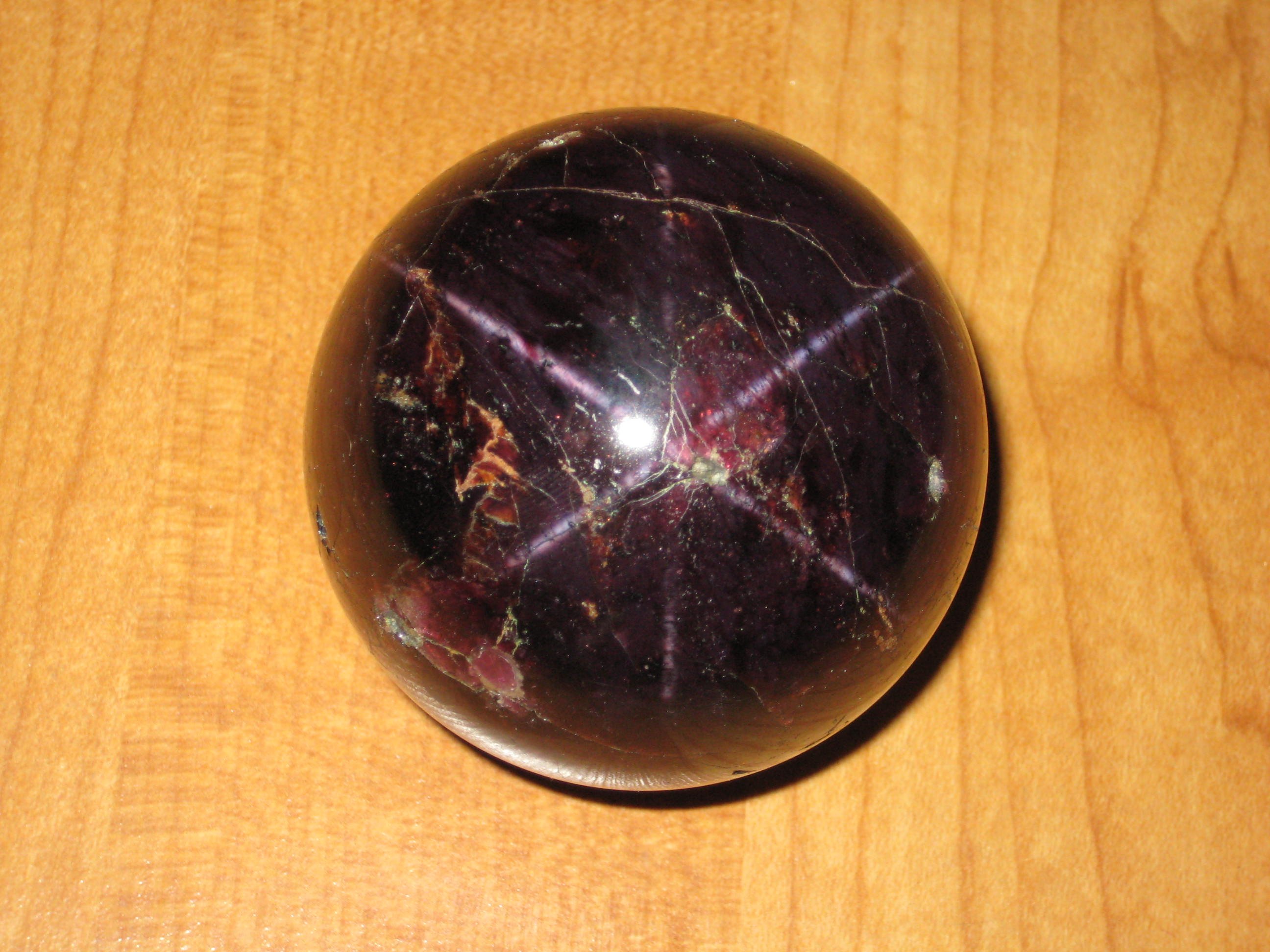 The Star of Idaho - World's Largest Six Ray Star Garnet